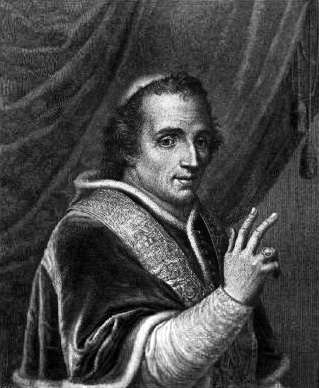 Papa Pio VII (1742-1823)